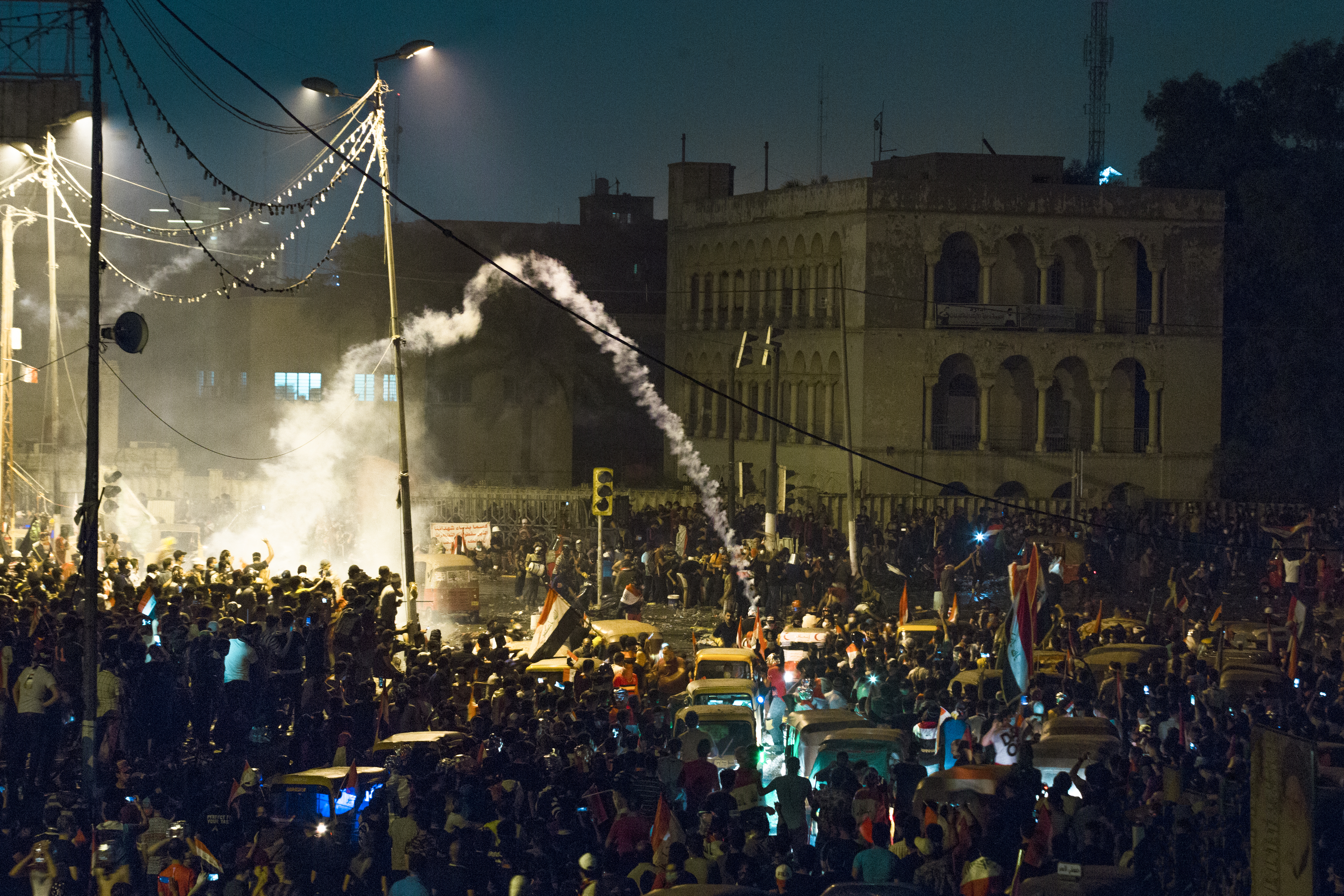 The tear tore through the crowds of demonstrators in the October Revolution